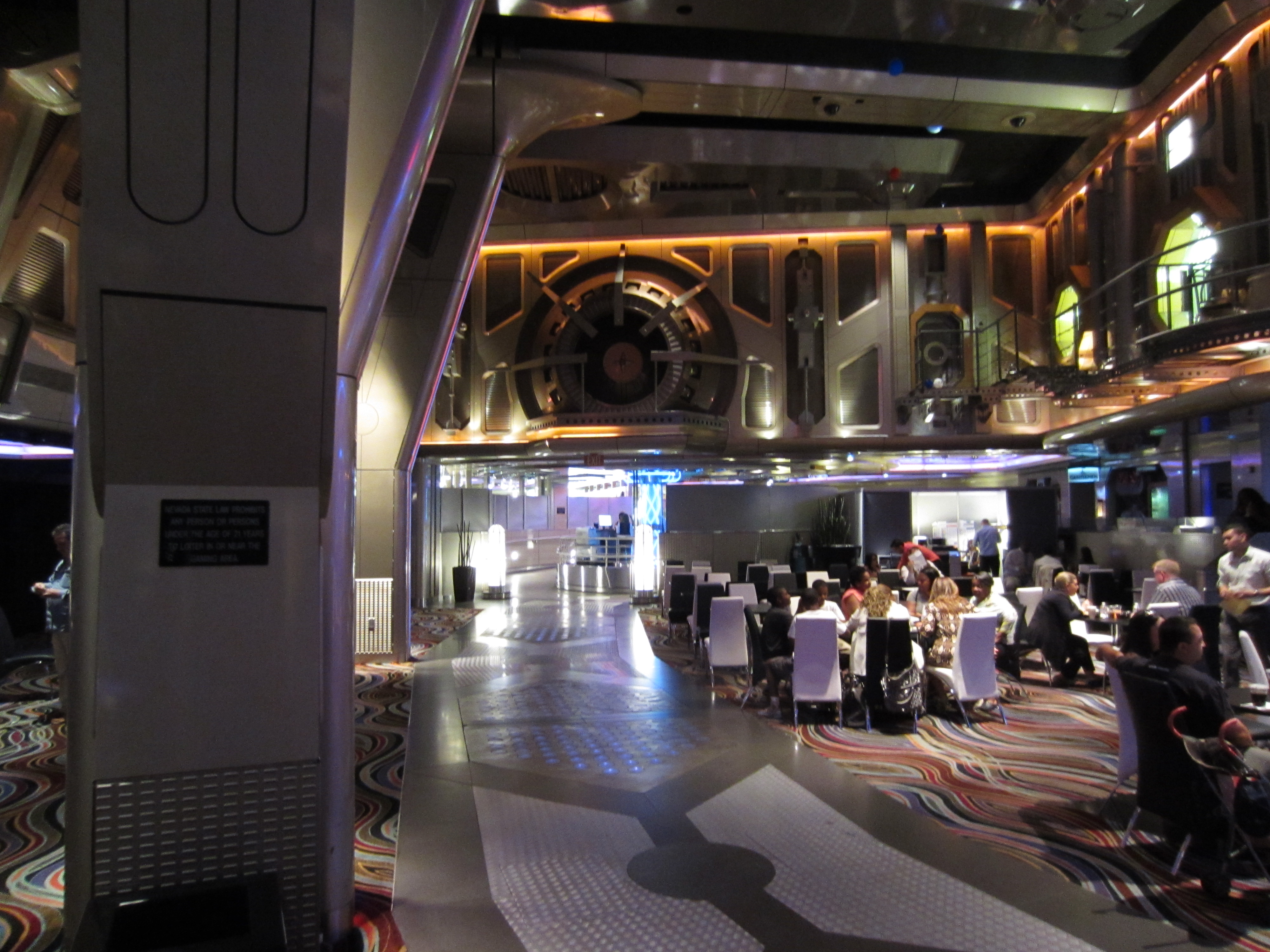 Bar in the Westgate Hotel in Las Vegas. This place that was formerly used as a Star Trek-themed bar (Star Trek: The Experience).